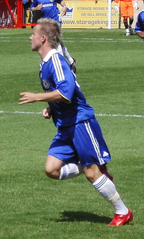 Image of footballer Miroslav_Stoch